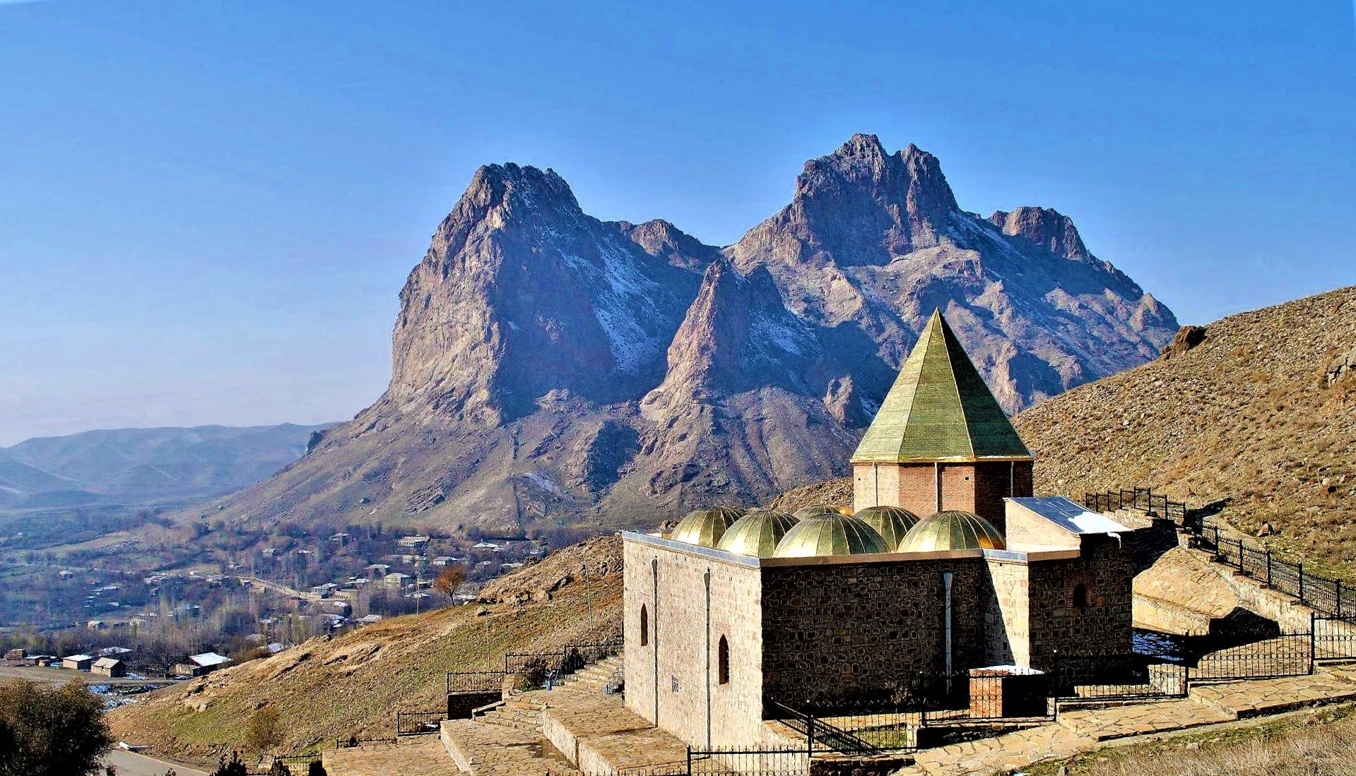 Alinchachay khanegah in NAkhchivan, Azerbaijan (tomb of Naimi)